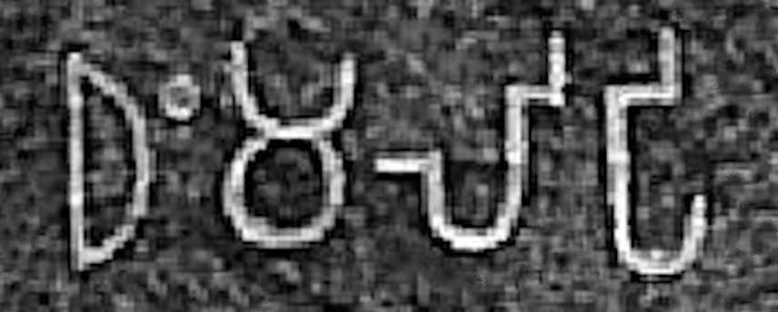 Delhi-Topra I II III Dhamma Lipi